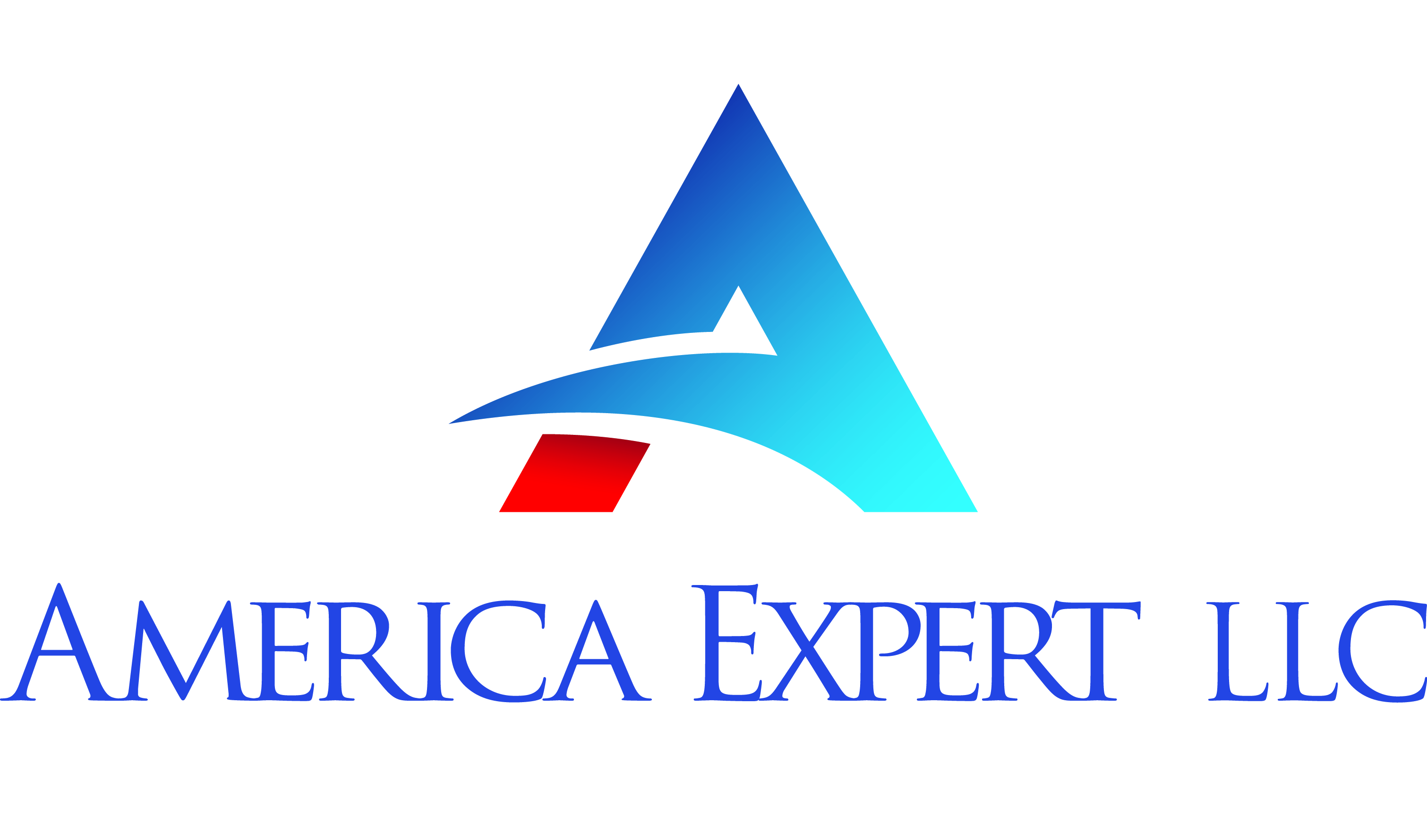 America Expert Business Consulting logo